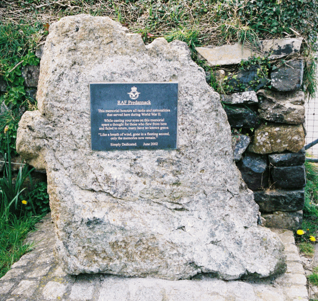 Second World War memorial at RAF Predannack main gate. Wording reads : RAF Predannack. This memorial honours all ranks and nationalities that served here during World War II. While casting your eyes on this memorial spare a thought for those who flew from here and failed to return, many have no known grave. "Like a breath of wind, gone in a fleeting second, only the memories now remain." Simply Dedicated. June 2002